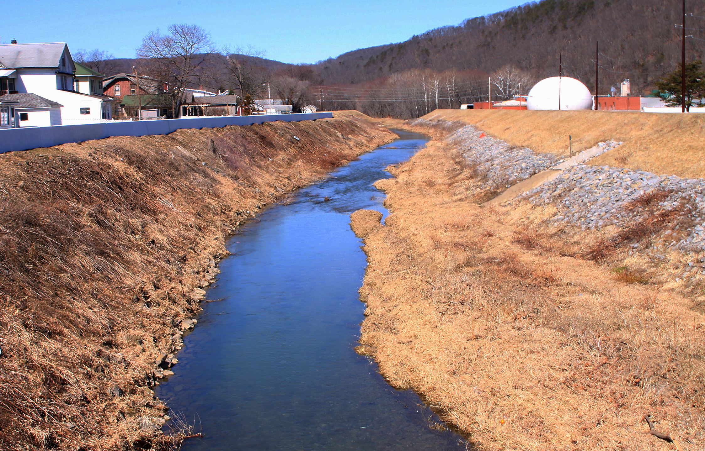 Mahoning Creek in its lower reaches